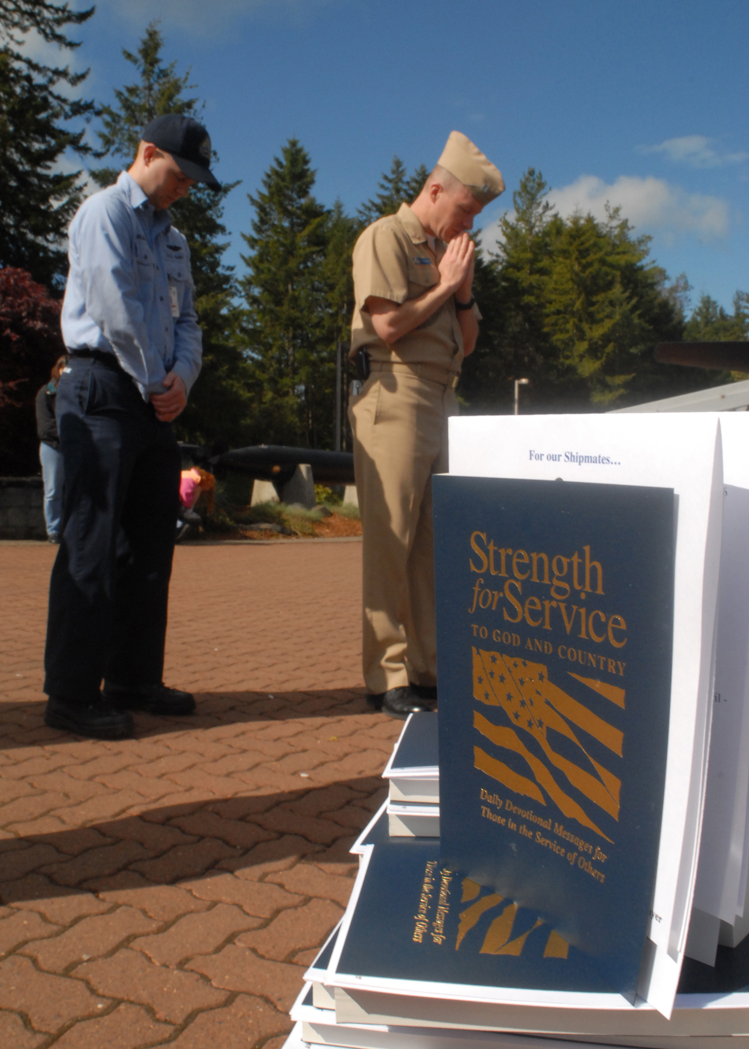 SILVERDALE, Wash. (May 3, 2007) - Electronics Technician 1st Class Scott Burlingame and Lt. Steve Stougard Naval Submarine Support Center chaplain bow their heads in prayer during the National Day of Prayer held at Naval Base Kitsap, Bangor. U.S. Navy photo by Mass Communication Specialist Seaman Andrew Breese (RELEASED)